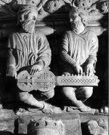 Cropped version of the Image:Organistrumsantiago20060414.png